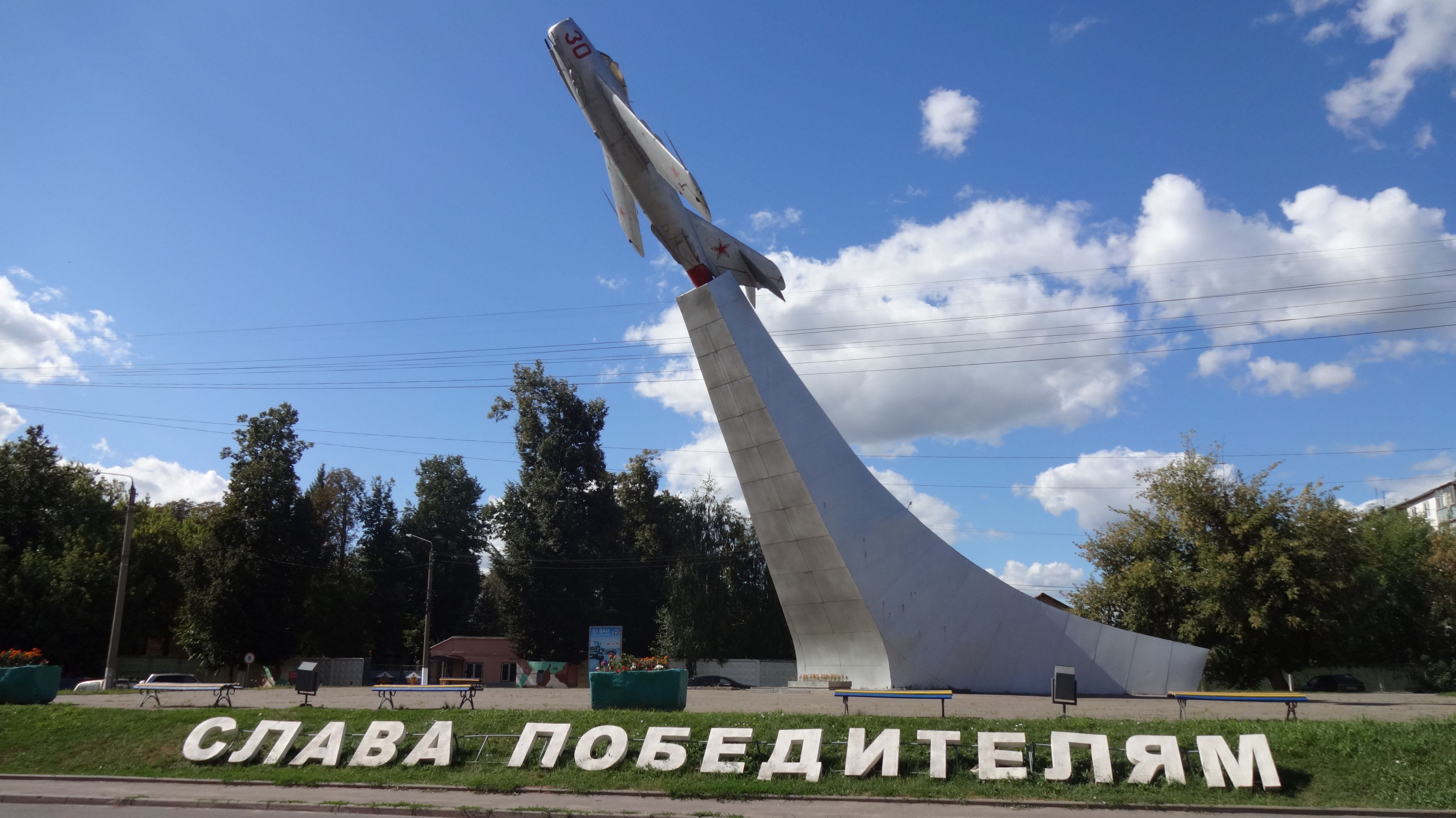 Obelisk in honor of the aviators, Oryol.